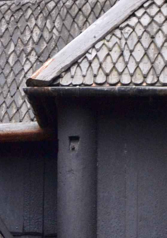 Northeastern corner stave of Lom stave church in Norway, erected 1157 or 1158. In the notch below the roof a rafter from the roof of the original pentice or gallery was jointed to the wall.